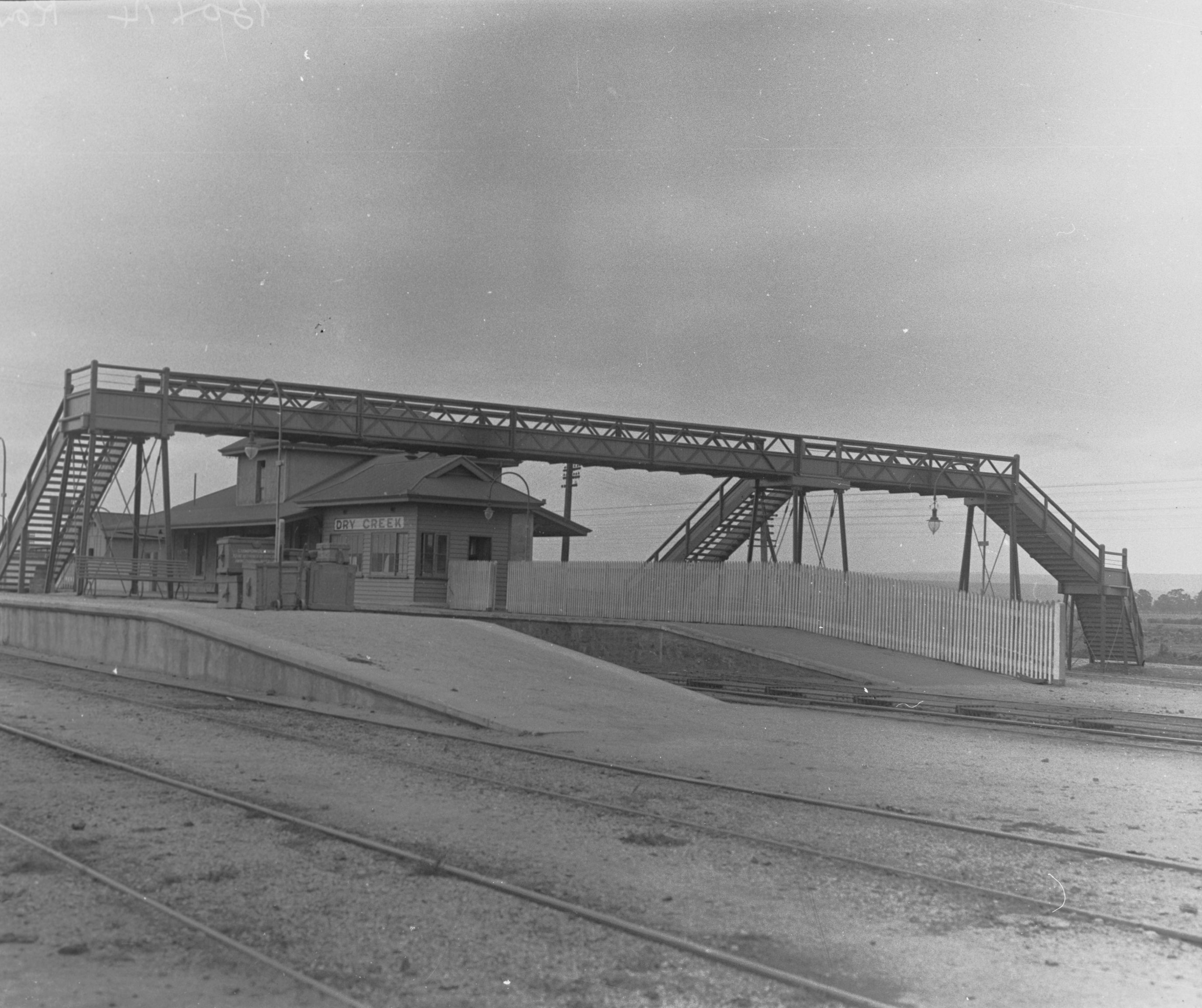 The Dry Creek Railway Line, originally opened in the 1850s, became very busy with the opening of the Government's abbatoirs in 1913 and the Marine Board's new explosive storage facility at Dry Creek in 1914. The Dry Creek Station was essential to the workings of both. Large stockyards were adjacent. The overbridge was approved for construction in late 1914 (Advertiser, 15 December 1914, p8). The Abbatoirs station next along the line served the meatworkers who moved into the area. See also GN01923, GNO1926.